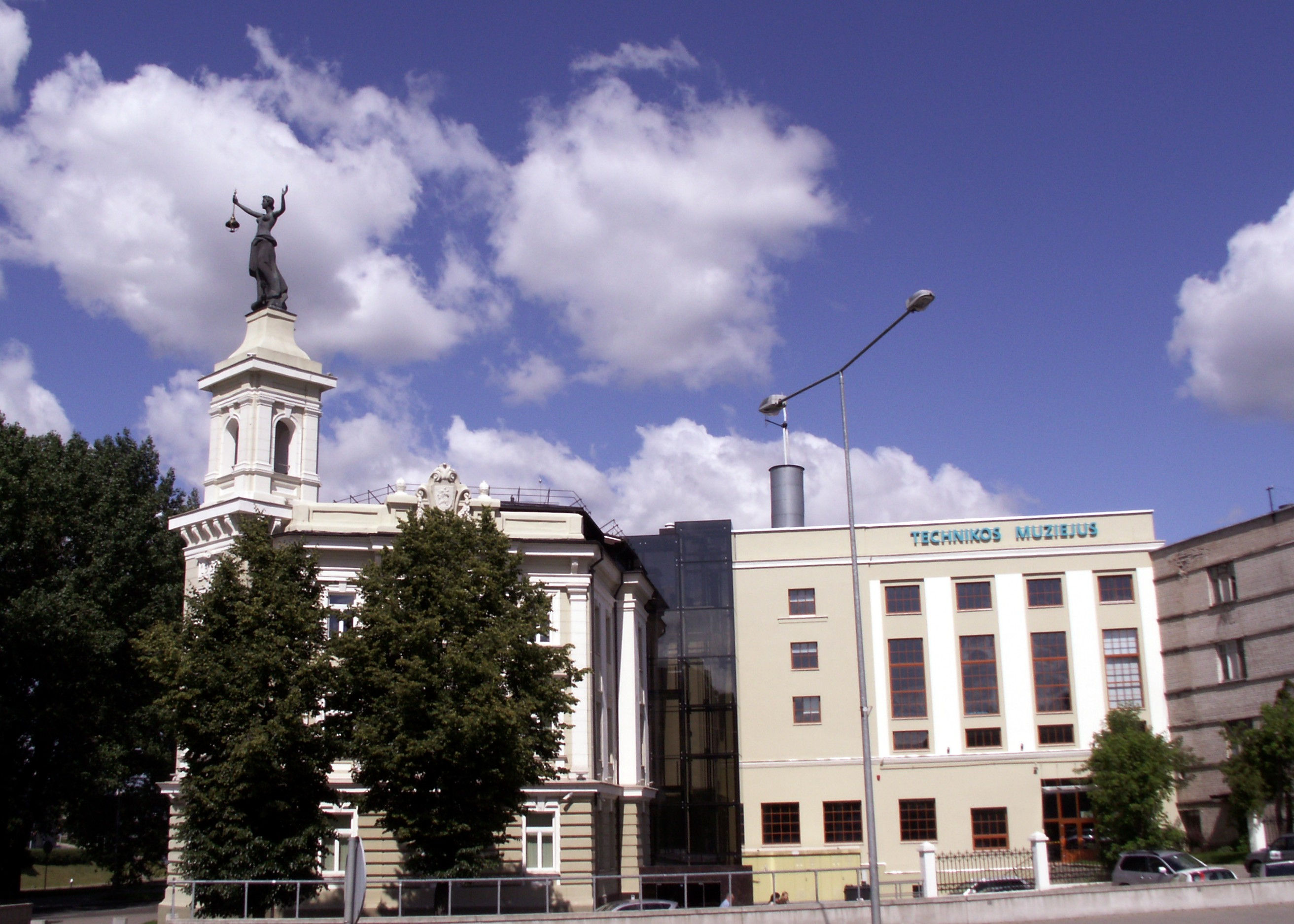 Museum of technics of Lithuania in Vilnius, Lithuania